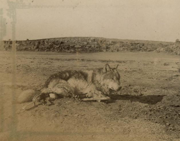 Lobo caught in a trap